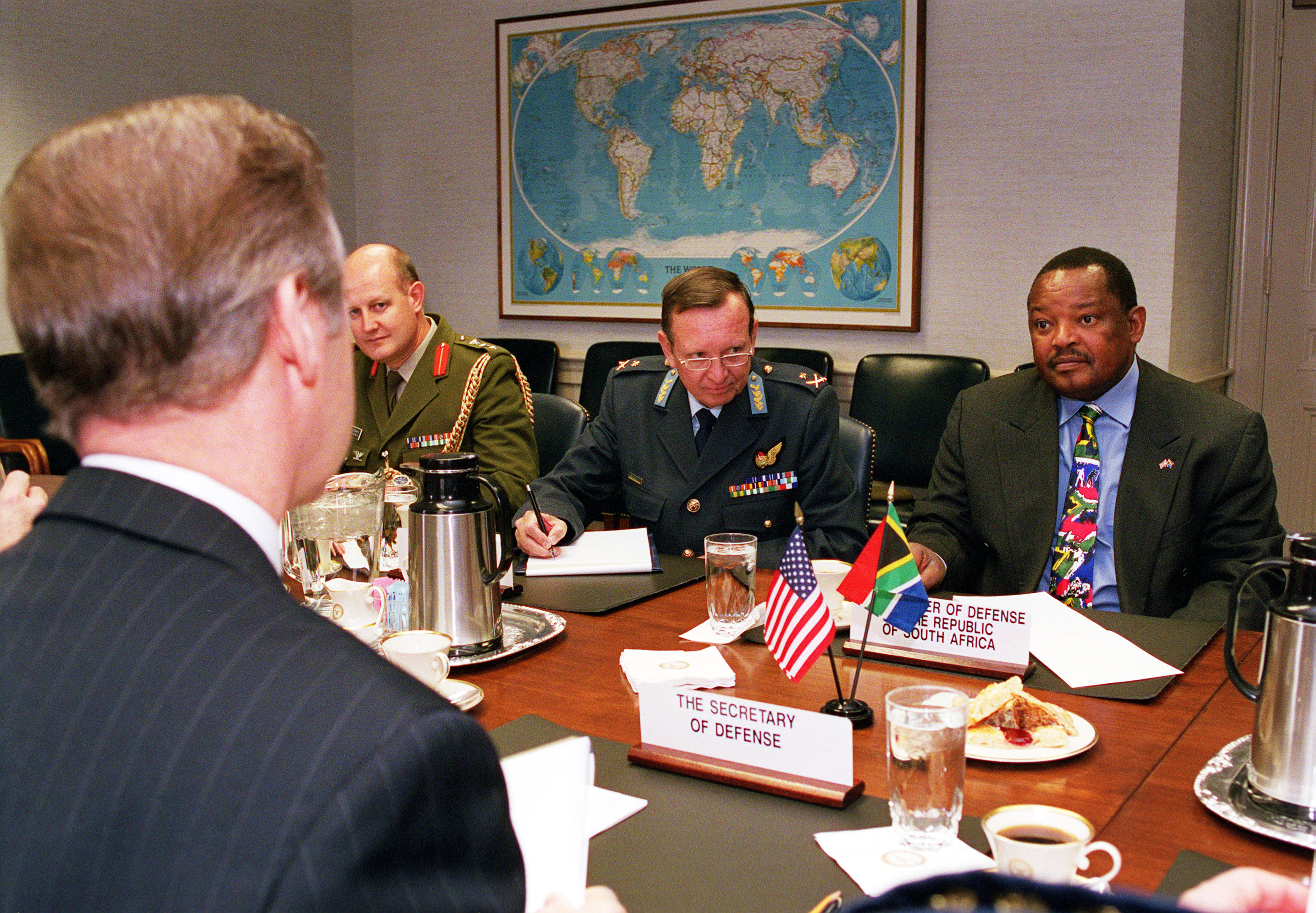 South African Defense Minister Patrick Lekota (right) meets with Secretary of Defense William Cohen (left) at the Pentagon on Dec. 7, 1999. Lakota and Cohen are having a plenary session with delegations from both nations to discuss a range of regional and global security issues. Attending the meeting as part of the South African delegation are: Col. Christaan Gildenhuys (left, far side of the table), the defense attachÃ© at the South African Embassy, and Major General Kenneth Snowball (center), the chief of staff.